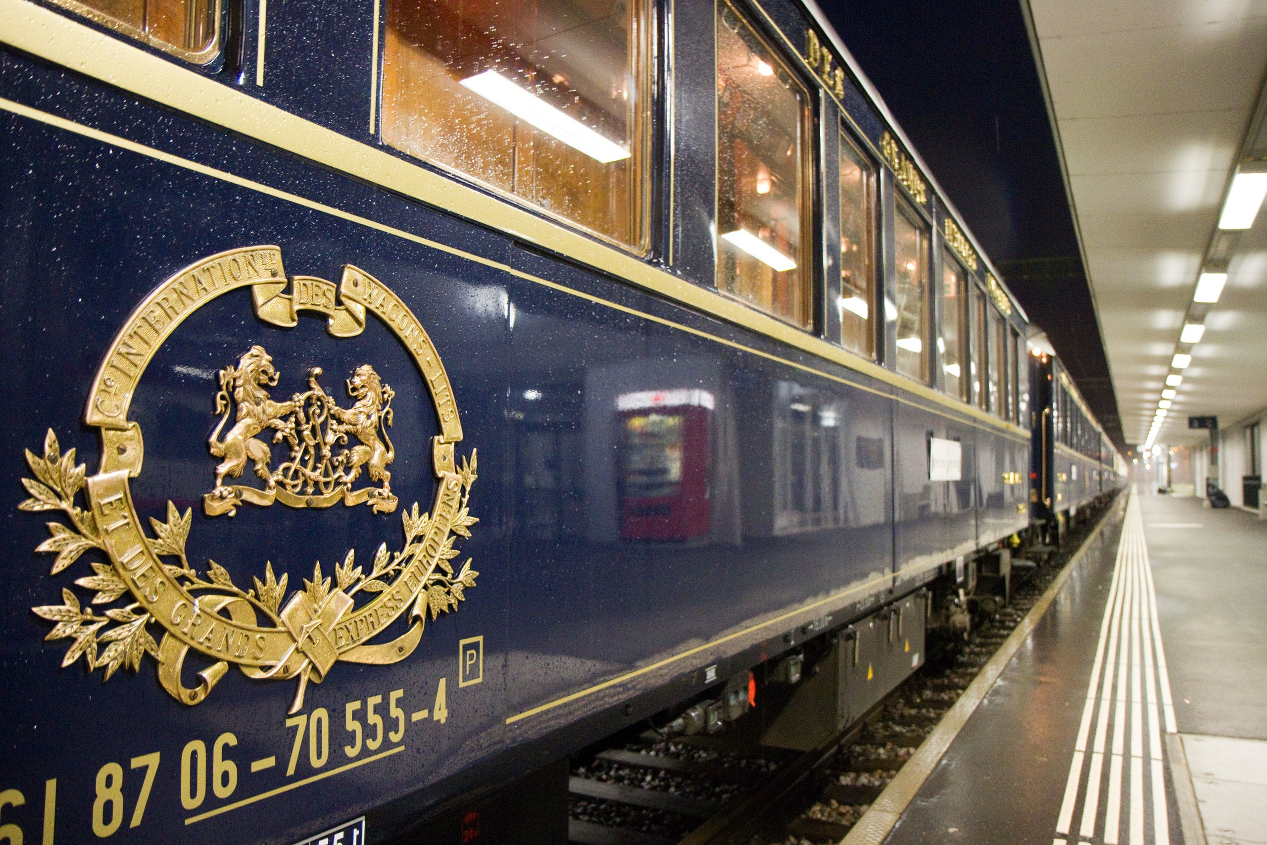 The Orient Express, formally the Compagnie Internationale des Wagons-Lits, during a halt at Buchs (St. Gallen), border station between Liechtenstein and Switzerland.